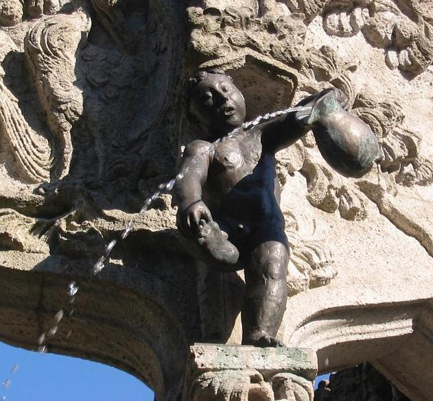 „Märchenbrunnen“ (german for: tale fountain) in the Schulenburgpark in Berlin-Neukölln. Created in 1915 (but installed first in 1935) by Ernst Moritz Geyger. Bronzeputto, in occasion of the fountain-restoration 2000 new created by the artist Anna Bogouchevskaia